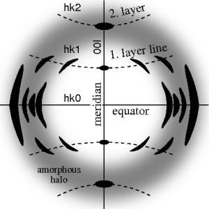 Sketch of an ideal fiber diffraction pattern showing meridian, equator, reflexions, amorphous halo, layer lines, indexing (Miller index)